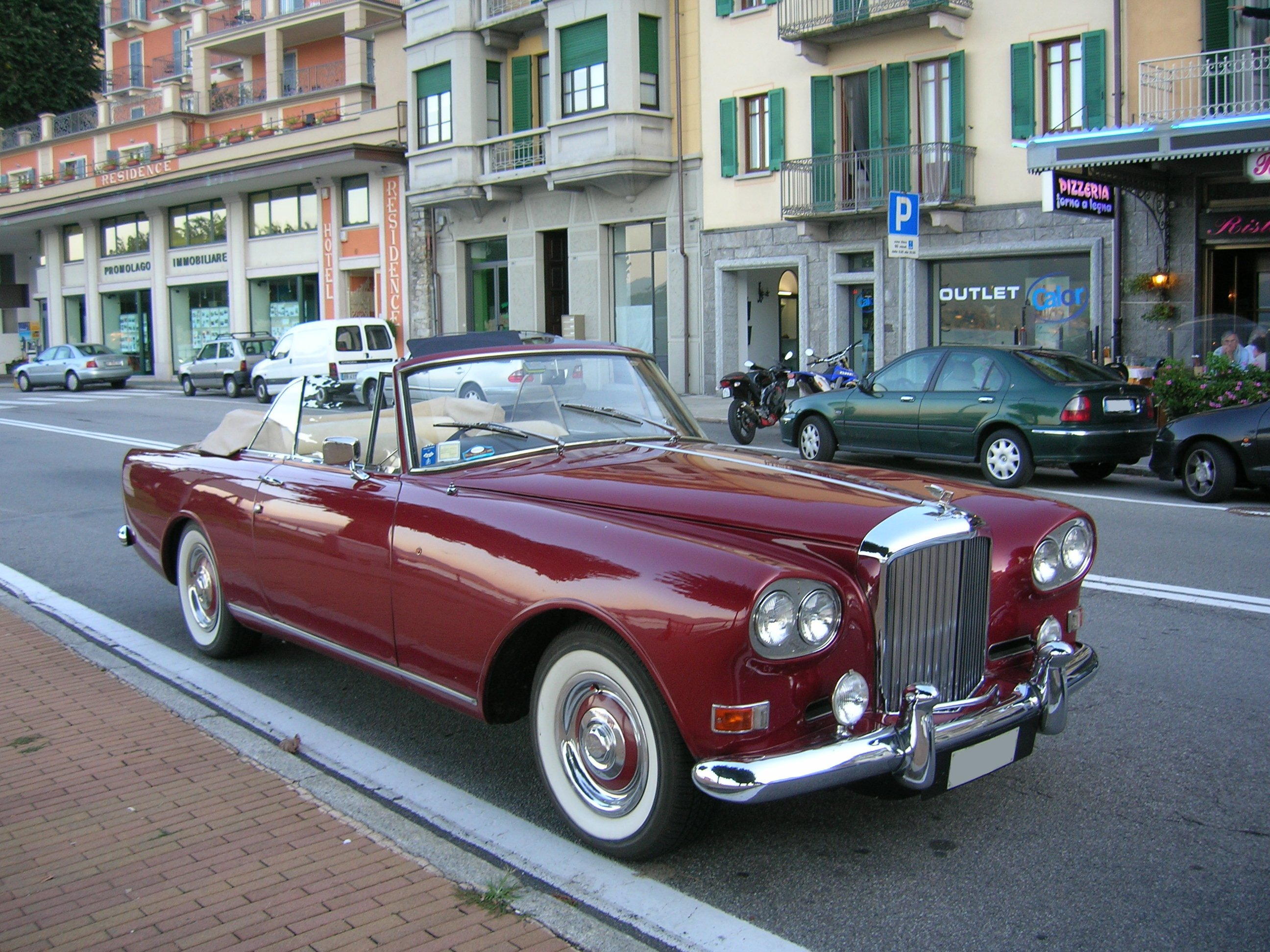 Bentley S3 Continental front